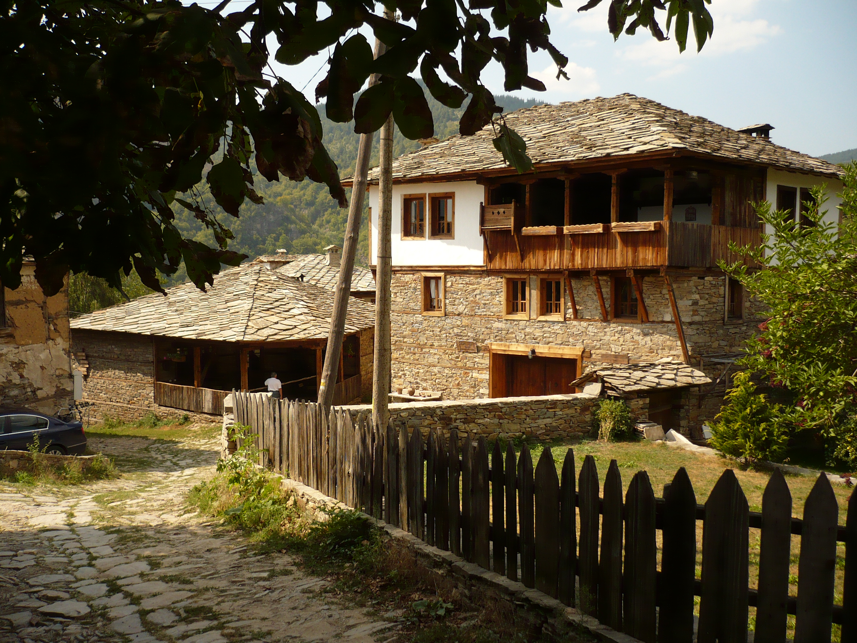 View from a street in the village Kovachevitsa, Southern Bulgaria.